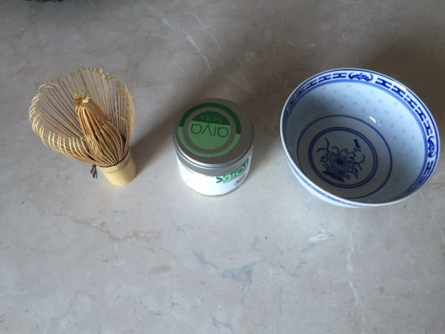 Прибор за Matcha чај